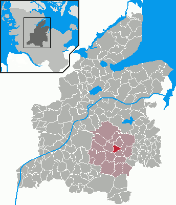 Locator maps of municipalities in Schleswig-Holstein - District Rendsburg-Eckernförde